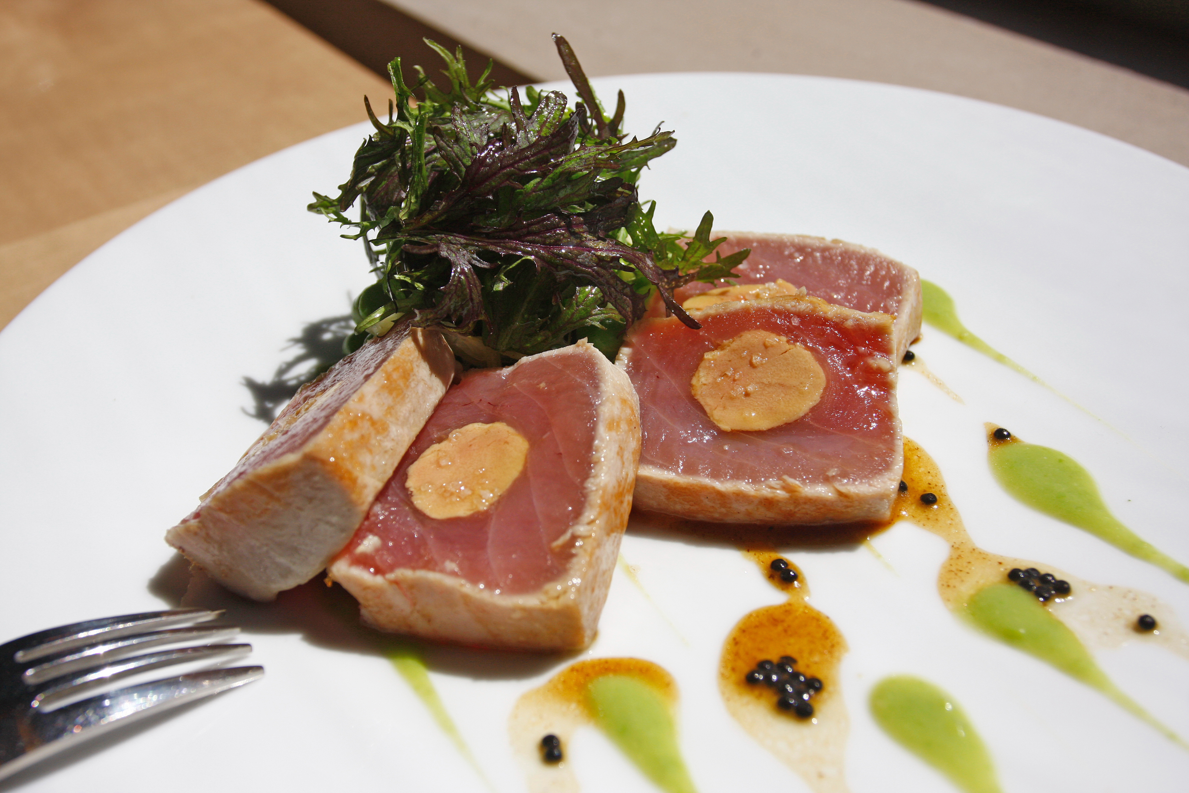 Restaurant SENSING